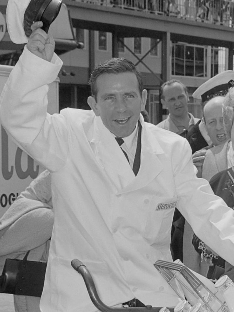 Norman Wisdom at Schiphol, 17 July 1965